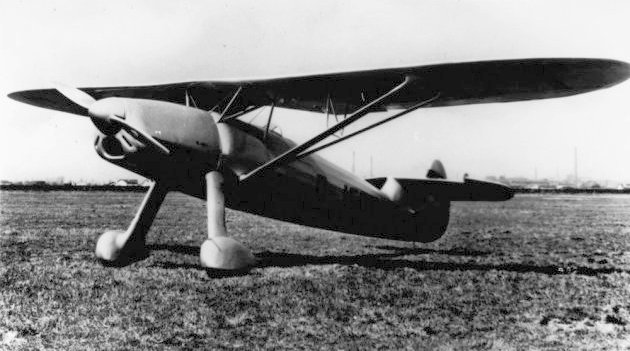 PictionID:38235810 - Catalog:Array - Title:Array - Filename:15_002311.TIF - -------Image from the Charles Daniels Photo Collection.----Album: German Aircraft.-----------PLEASE TAG these images with any information you know about them so that we can permanently store this data with the original image file in our Digital Asset Management System.-----------------SOURCE INSTITUTION: San Diego Air and Space Museum Archive